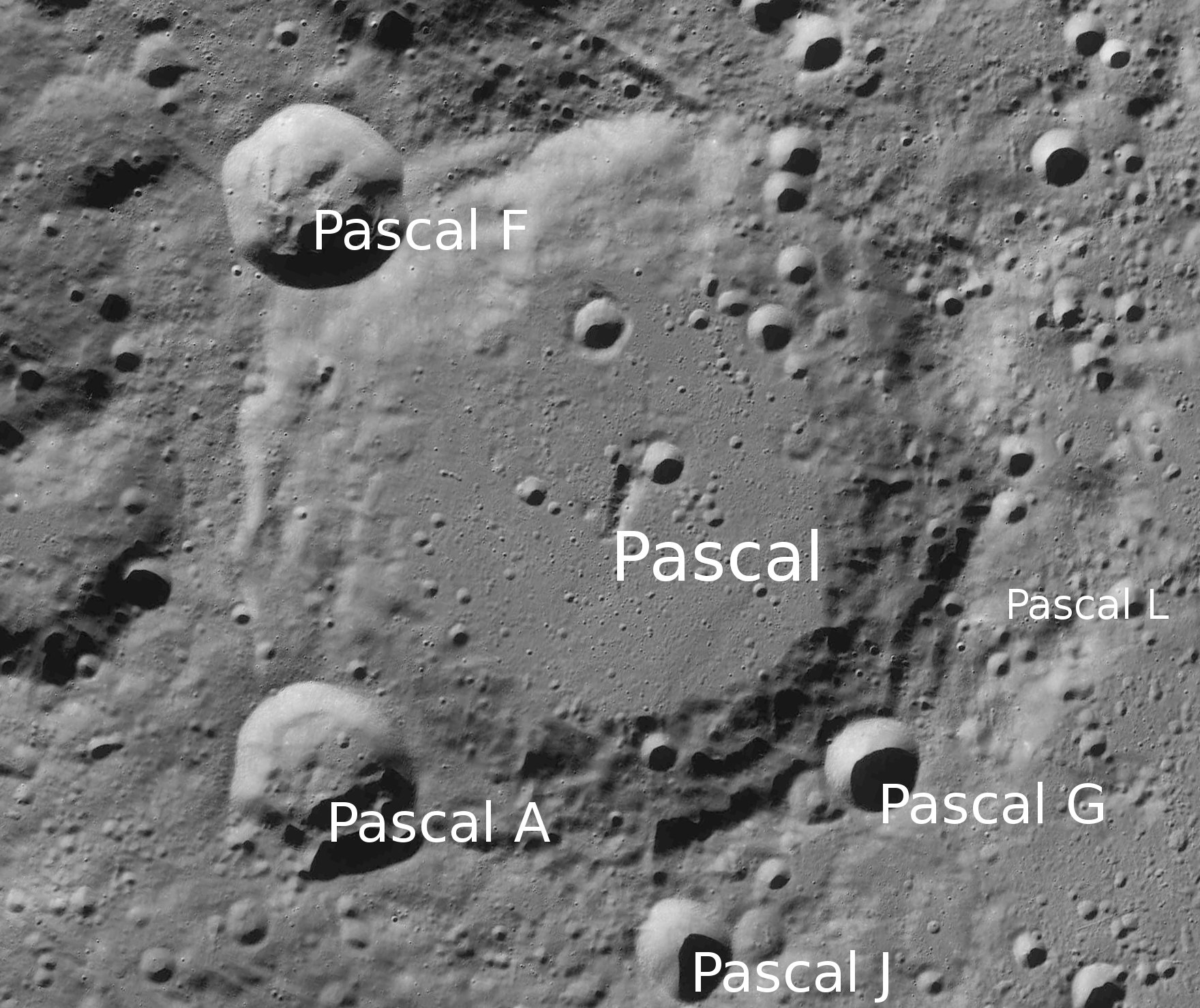 Moon crater Pascal with satellite features (north at top; detail of LRO - WAC north pole mosaic)